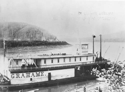 The SS Grahame in 1899, at Fort McMurray, Alberta, Canada.